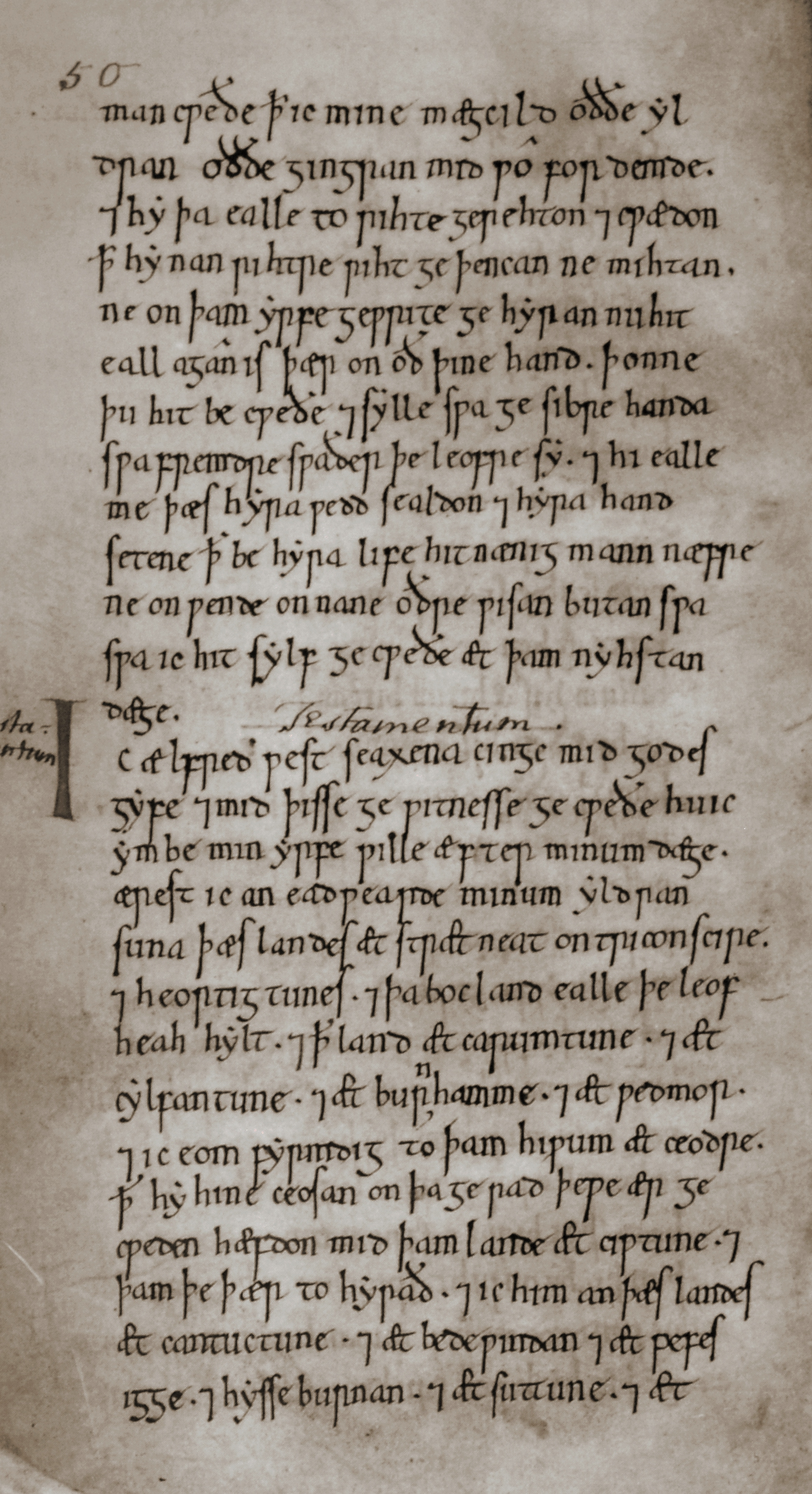 Page from the will of Alfred the Great. The top part, above the 'I', describes the Witan's support of his case against his nephews. The will proper starts below the 'I'.